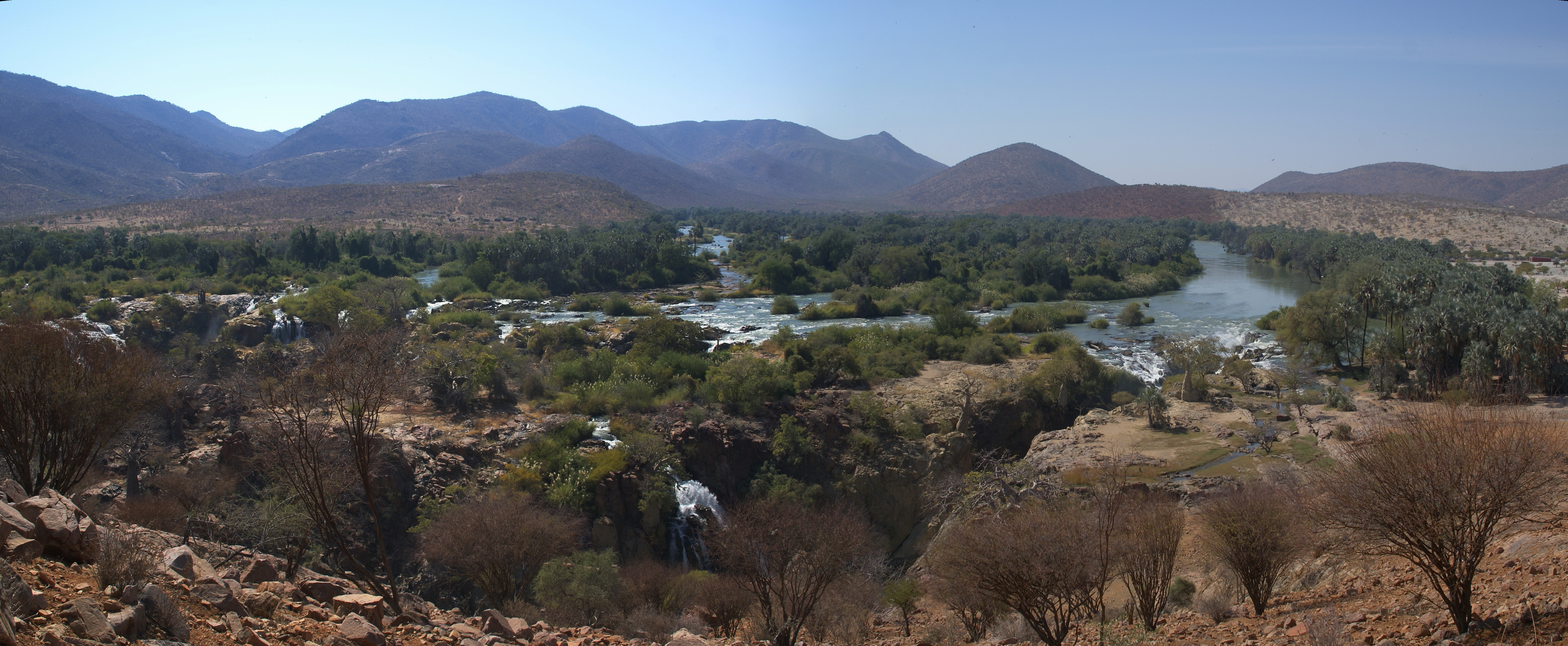 Epupa Falls on the Kunene river, Namibia. View in interactive viewer